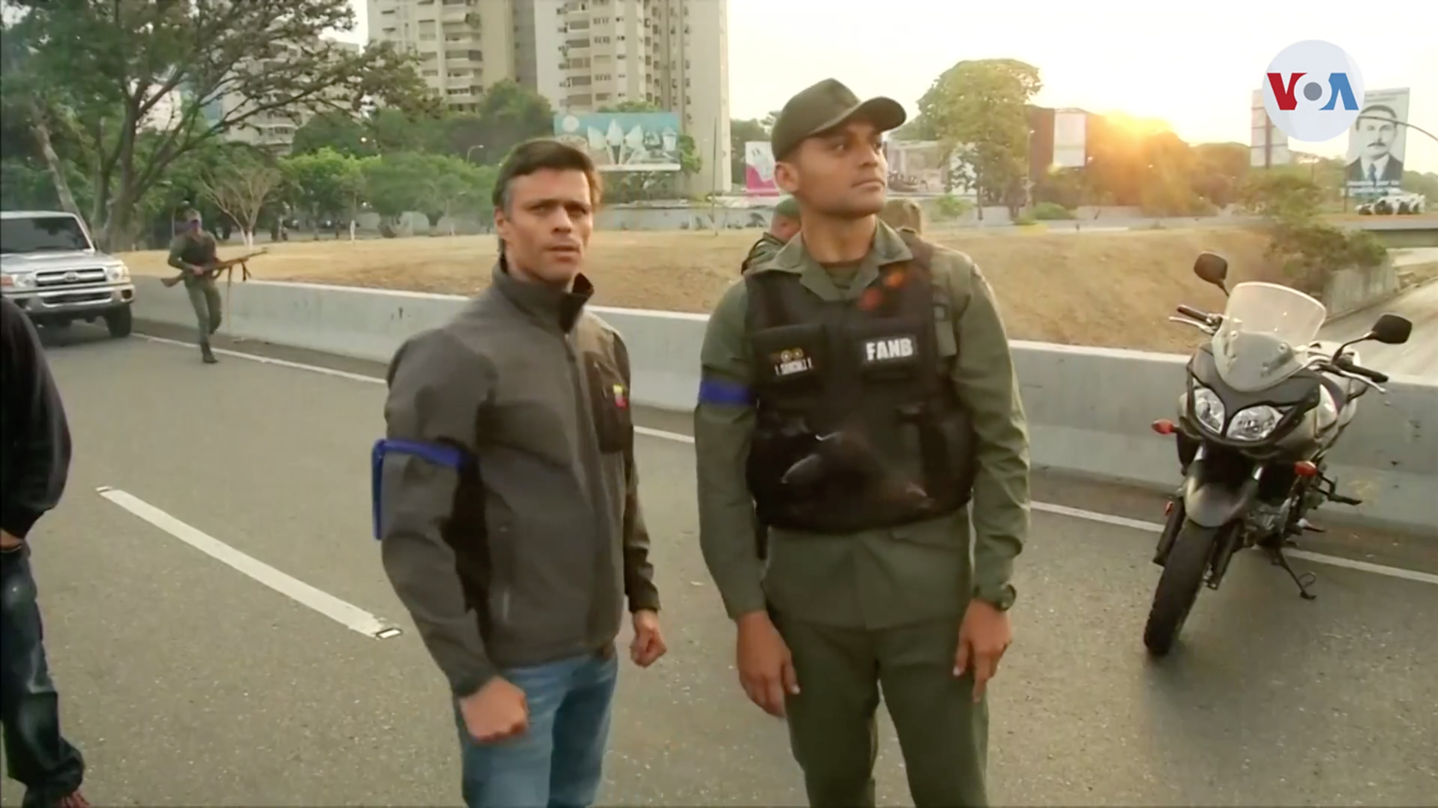 Leopoldo López beside a pro-Guaidó soldier on 30 April 2019.